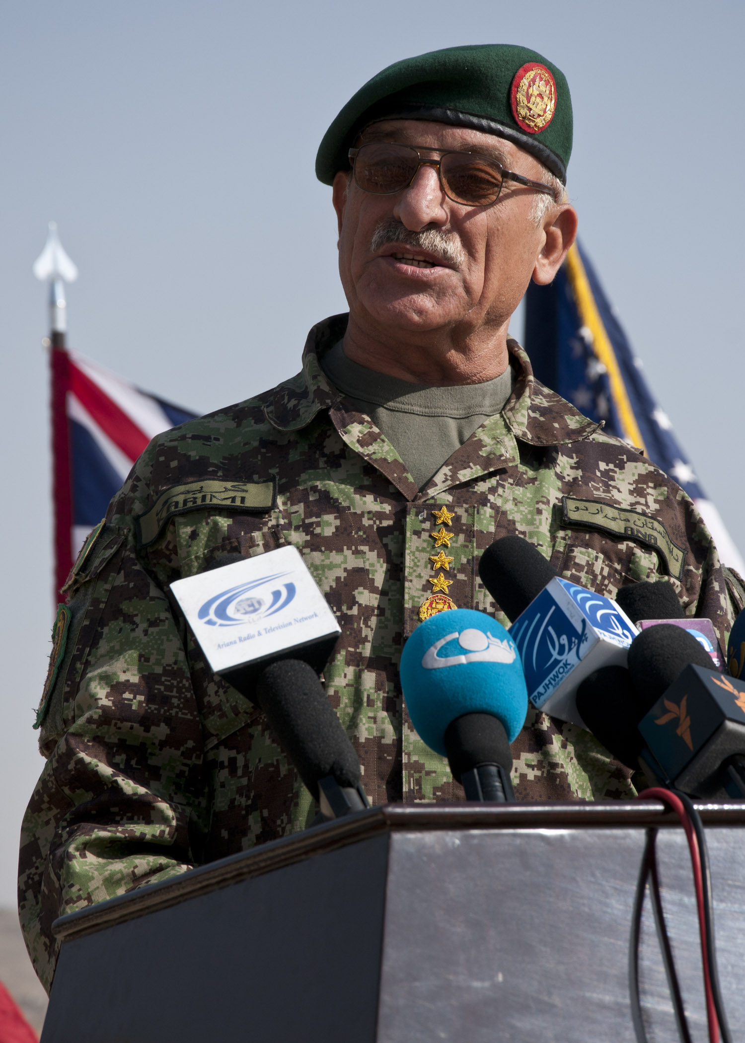 KABUL- Gen. Sher Mohammad Karimi, Chief of General Staff for the ANA, gives a speech during the ground breaking ceremony for the Afghanistan National Army Officers Academy, Oct 11.